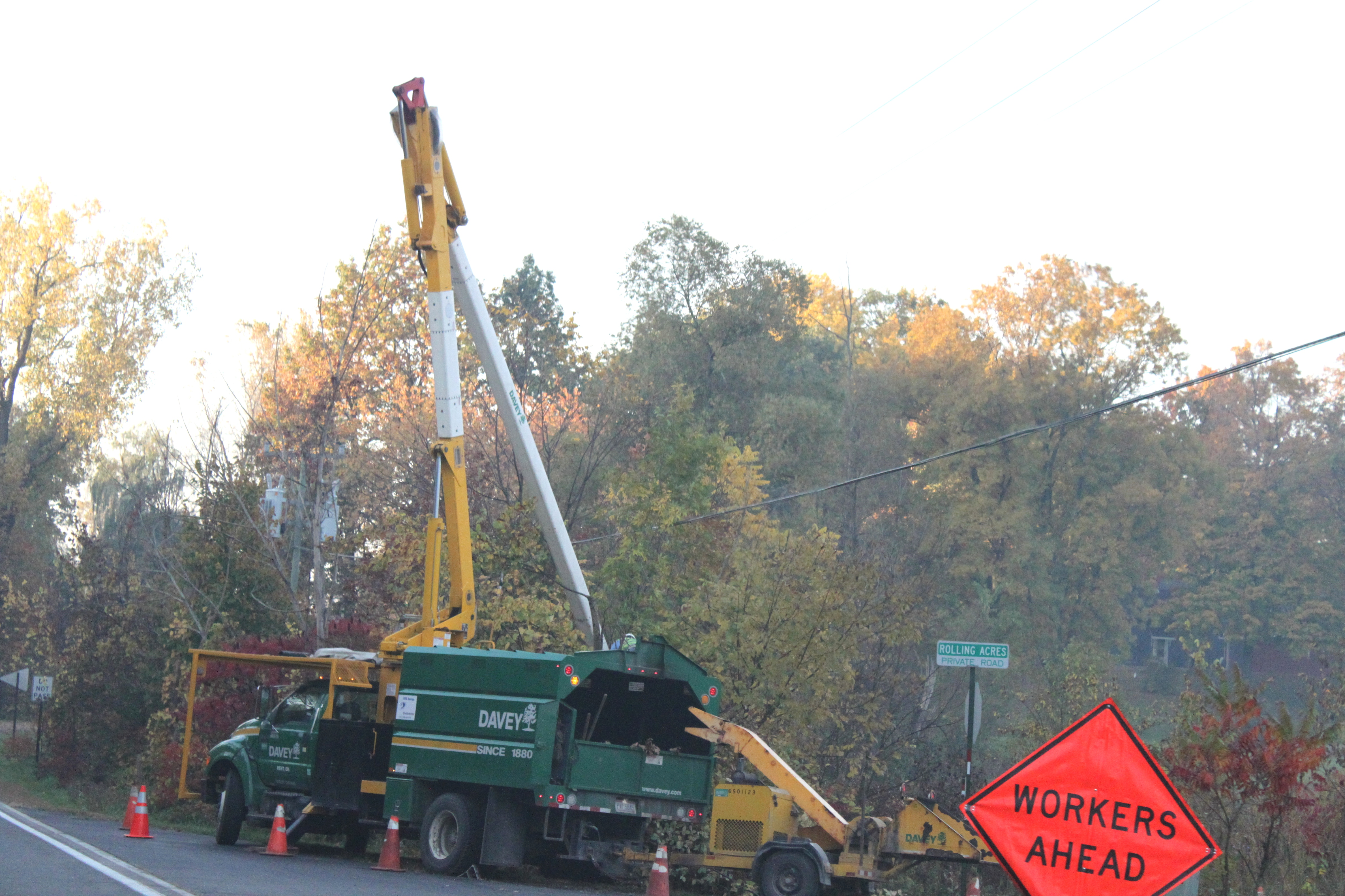 Davey Tree Expert Company tree trimming operations, Prospect Road at Rolling Acres Road, Superior Township, Michigan.